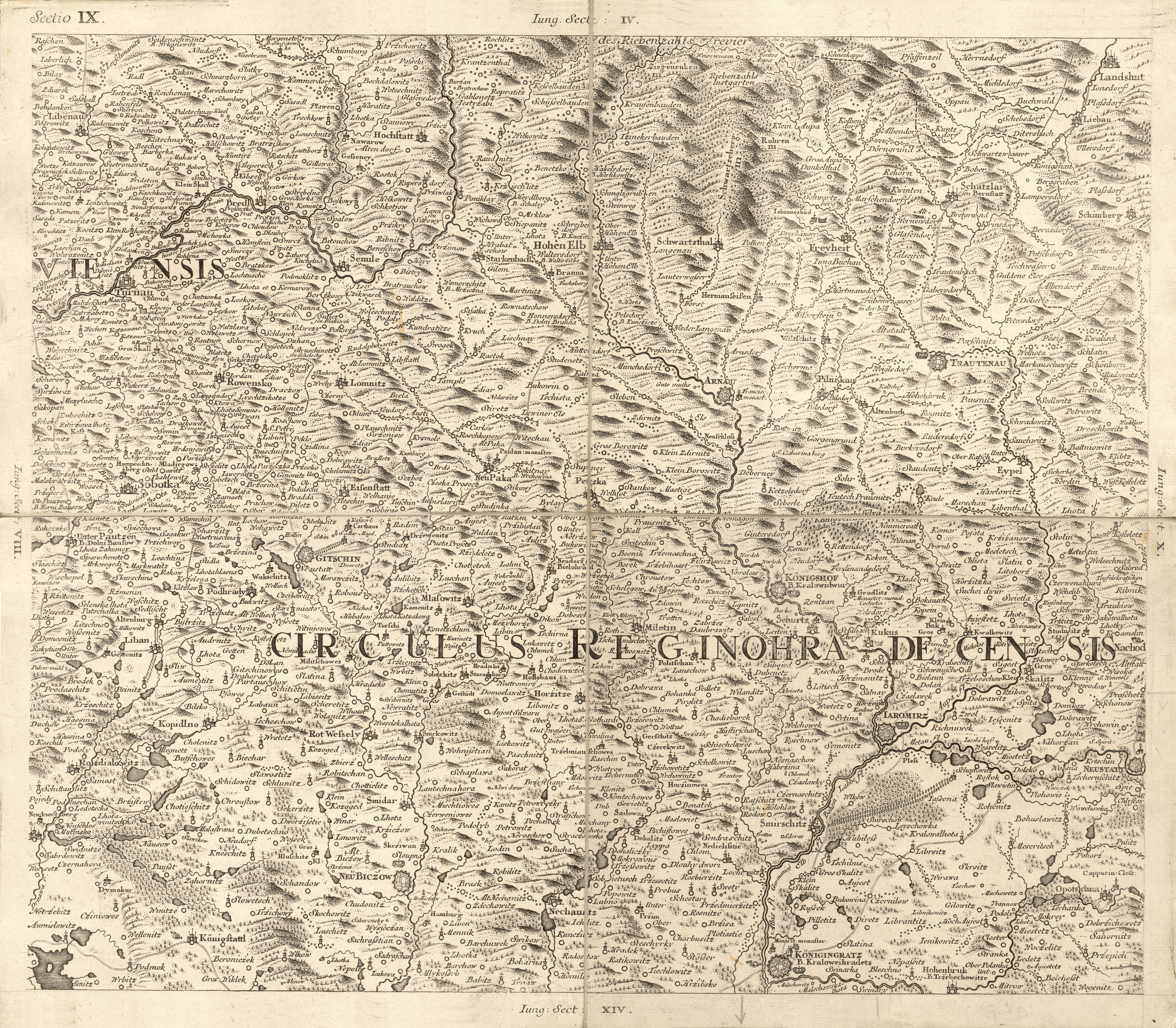 Müller's map of Bohemia.